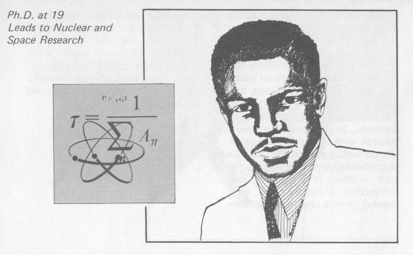 BLACK CONTRIBUTORS TO SCIENCE AND ENERGY TECHNOLOGY anonymous, U.S. Department Of Energy U.S.Government Printing Office, U.S. Department of Energy, 1979, stapled pictorial wraps, Fine, 25 pages, short biographies & portraits of 24 African American scientists